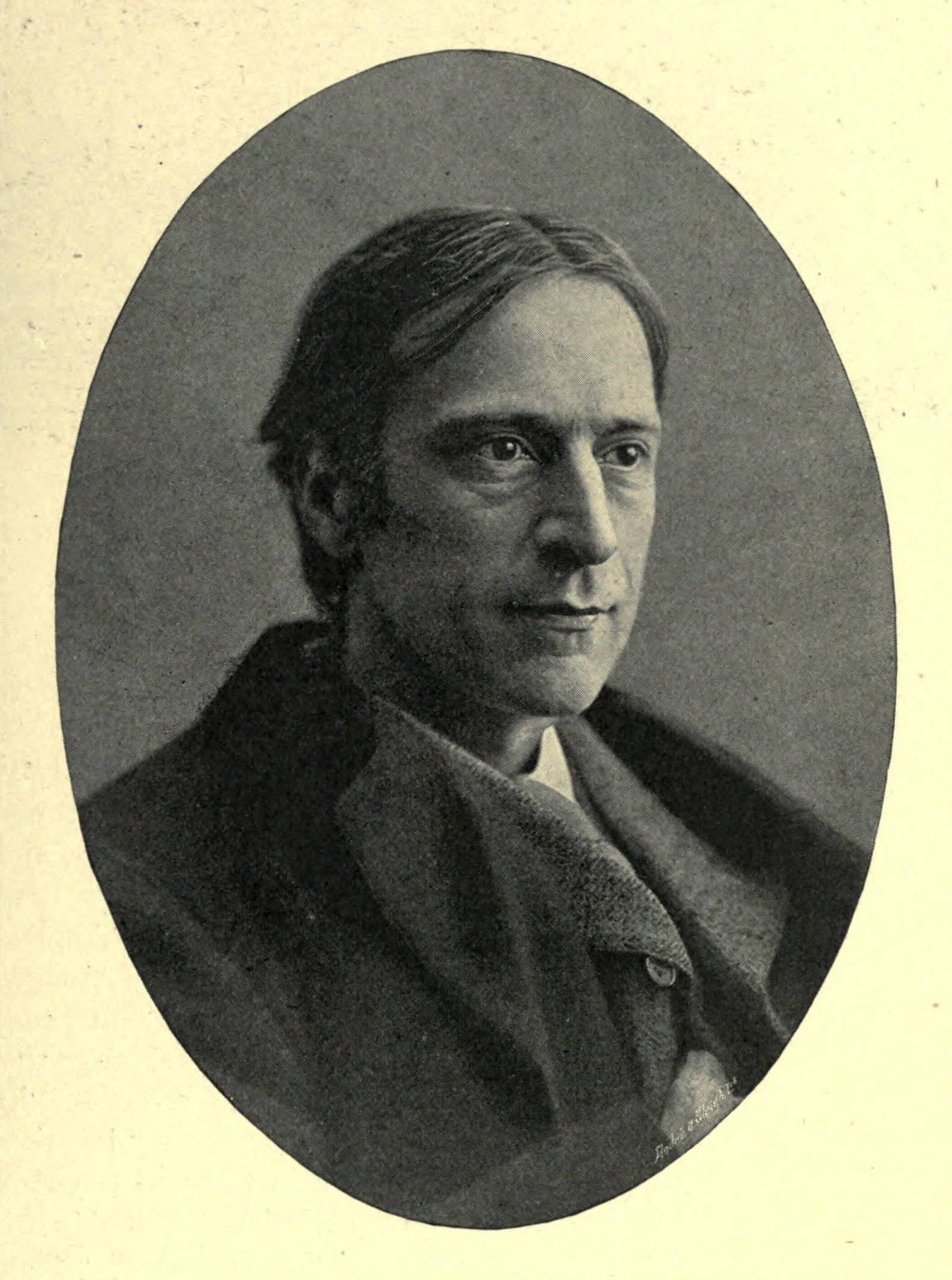 Portrait of Hubert von Herkomer